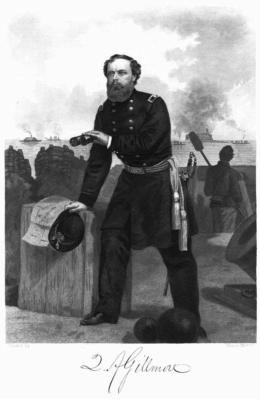 Illustration from General Quincy A. Gillmore's Engineer and artillery operations against the defences of Charleston Harbor (New York: D. Van Nostrand, 1865)